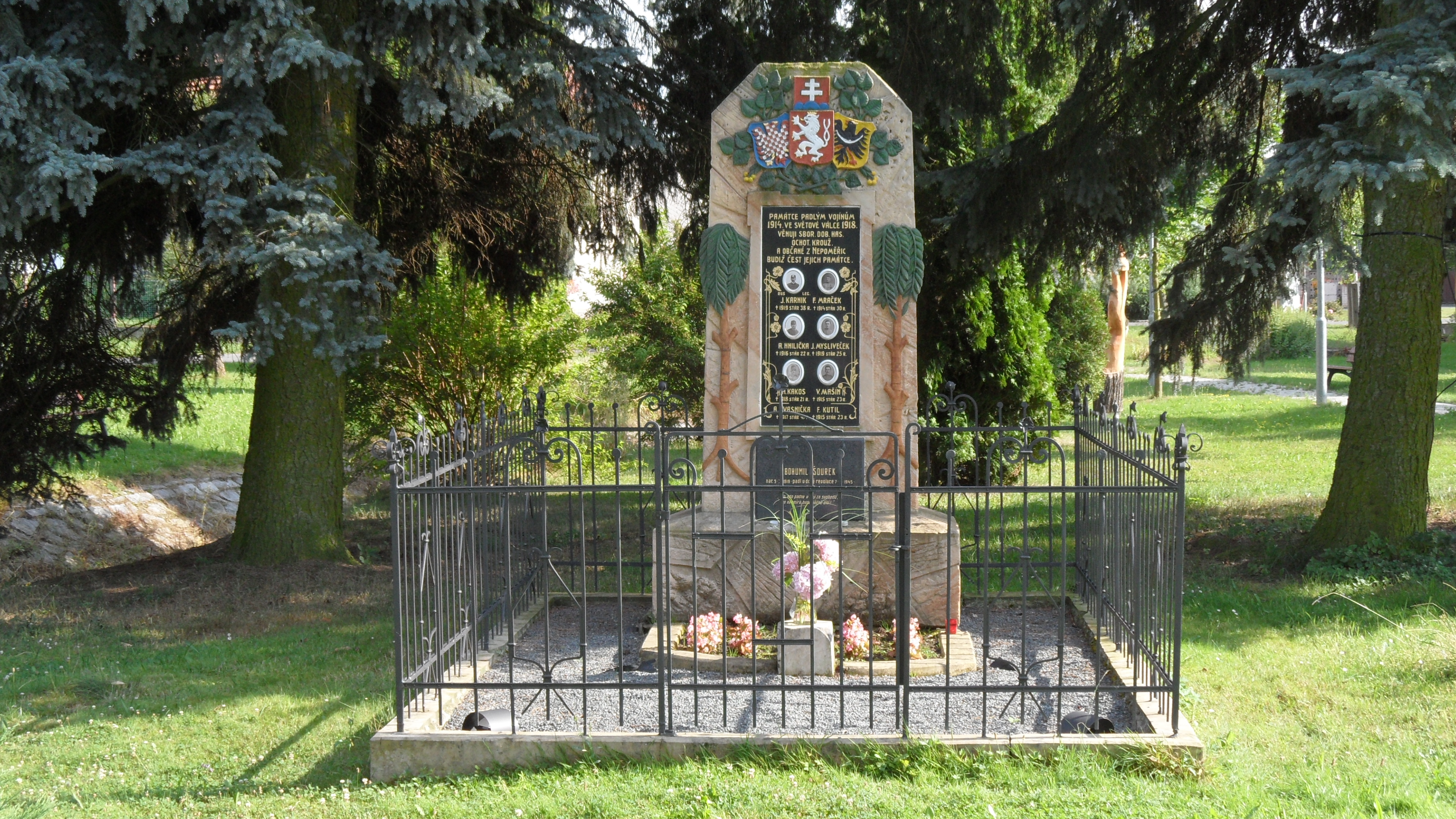 Nepoměřice E. Memorial of Victims of WW1, Kutná Hora District, the Czech Republic.